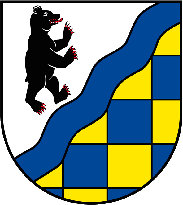 Coat of arms of Bärenbach